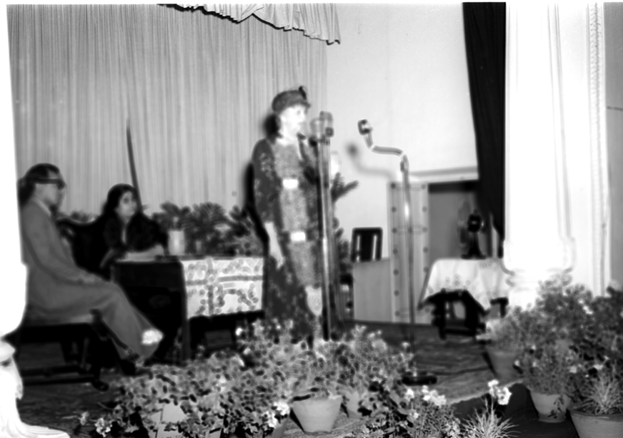 Studio/Mar.’52, A10s Mrs. Eleanor Roosevelt speaking at the Indian Conference of Social Workers (Hyderabad Branch), at Lady Hydari Club in Hyderabad, on Sunday March 9, 1952.